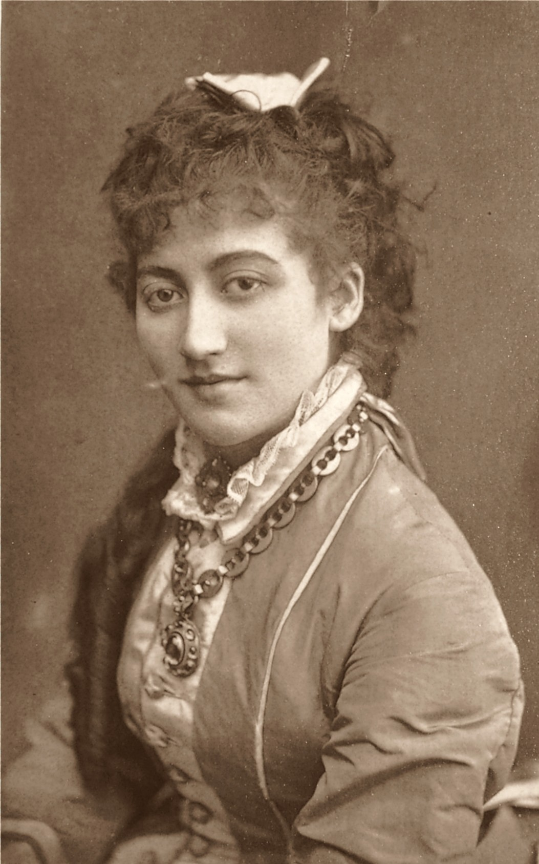 Victoria Vokes 1853-1894, Vokes Family, English Actress.